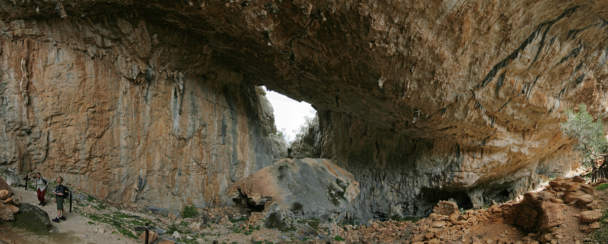 Inside the depression on Monte Tiscali, Sardinia, Italy